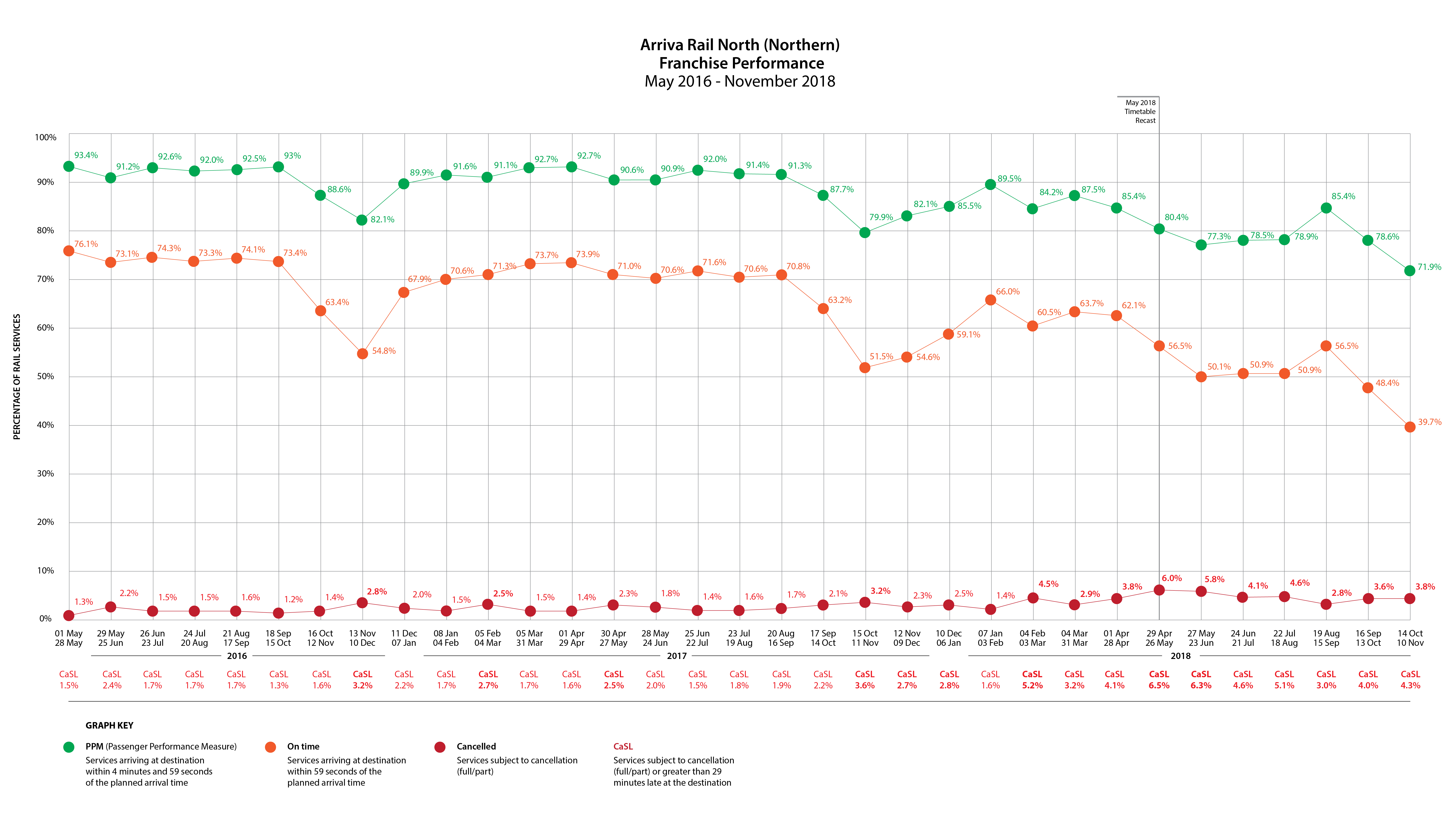 Graph showing Arriva Rail North (Northern Rail) franchise performance from commencement of franchise in April 2016 to April 2018. Taken from Arriva Rail North period performance statistics. Accessed 23 May 2018 at